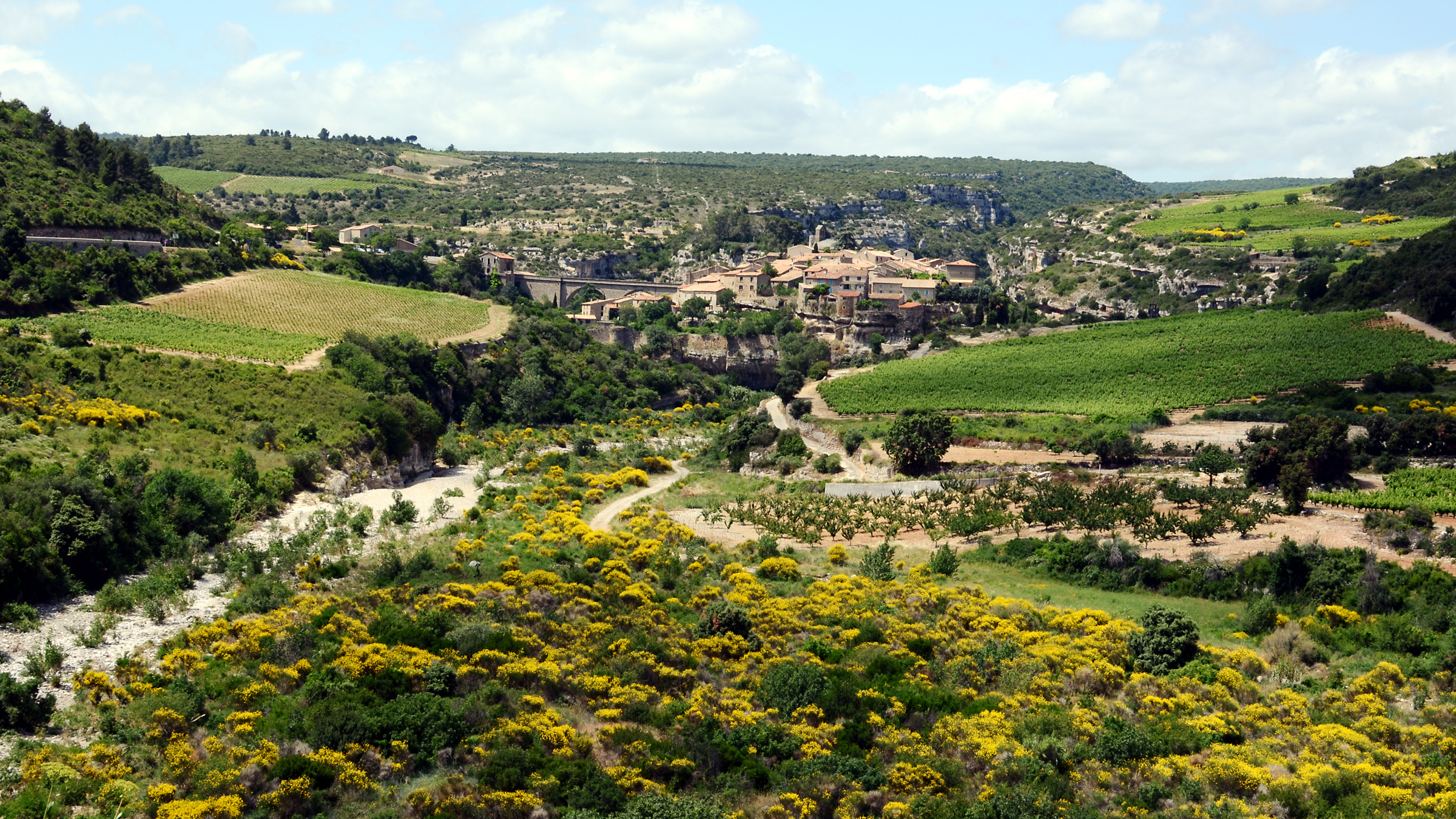 Minerve (France)